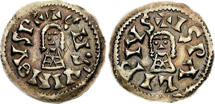 Visigoths in Spain. Chindaswinth. 642-653. AV Tremissis (1.56 g, 6h). Hispalis (Seville) mint. +CN•SVINLVS PX, facing bust +ISPLLIS PIVS, facing bust. CNV 411.6; Miles, Visigoths 324b; Chaves 270 var. (obv. legend); MEC 1, 255 var. (same). Good VF, toned, small “X” graffito on obverse. Rare. The Visigoths were one of many Germanic tribes that invaded the Roman Empire in the fourth century AD. Their early period is most notable for their defeat of the emperor Valens at Adrianople in AD 378 and their sacking of Rome under Alaric in AD 410. Alaric’s successor, Athaulf, led the Visigoths into Gaul and Spain, where they subsequently fought against the Vandals and Suevi for the emperor Honorius. Honorius rewarded them, in AD 417, with his permission to settle as foederati in western Aquitaine. Over the following half-century, the Visigoths rendered relatively faithful service to the empire, until their king Euric conquered much of Gaul and established an independent kingdom. This kingdom was quickly squashed in AD 507 by the Franks under Clovis, and the center of Visigothic power moved to Spain, where it flourished and took hold. The majority of the later kings were relatively weak and ineffectual. A few exceptions were the following: Leovigild, an outstanding military and political leader whose long reign (AD 568-586) ushered in the royal line that continued until the end; Reccared, who officially abandoned Arianism for Catholicism; and Sisebut and Swinthila, whose efforts led to the final conquest of Byzantine possessions in Spain. By AD 711, the decentralizing of power in Visigothic Spain had left the kingdom weak in the face of the invading Arabs, who defeated Roderick, the last Visigothic king. Another Visigothic leader, Achila II, continued to rule in Septimania, but he was also killed by the Arabs in AD 714.